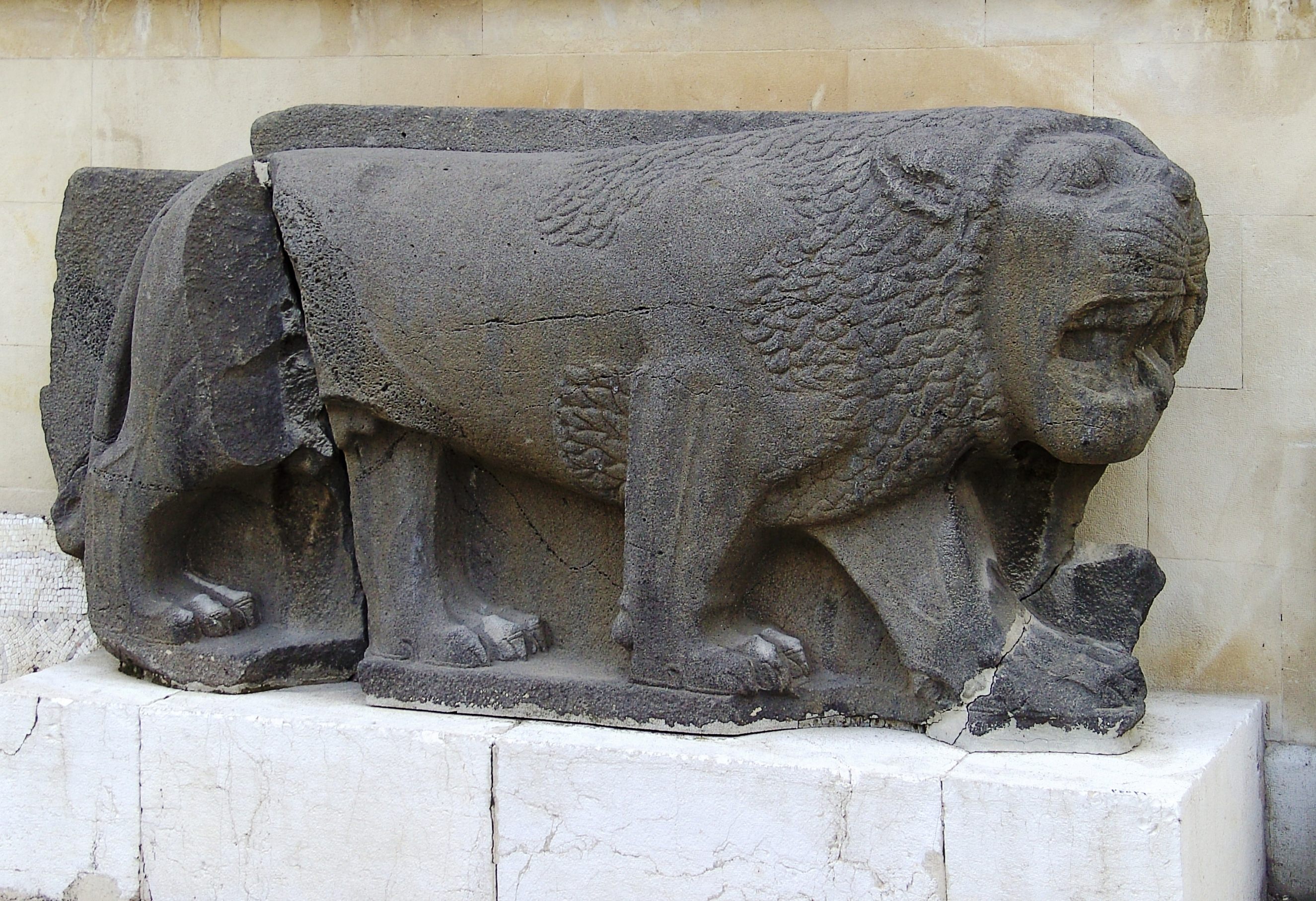 A massive Basalt Hittite Lion statue from the former Hama Citadel at the National Museum of Damascus.